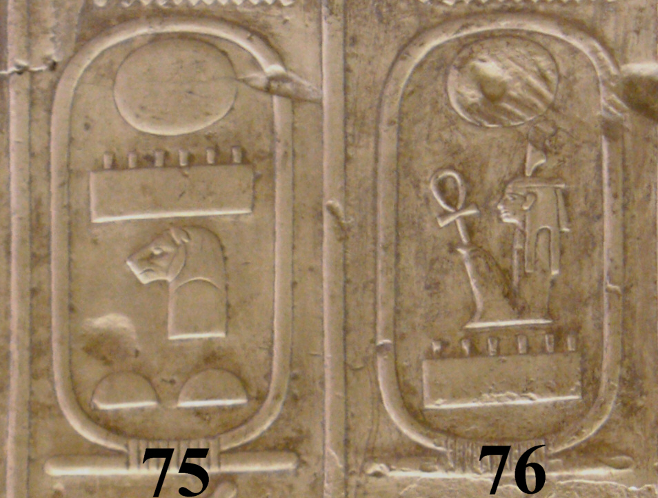 Royal cartouches 75 and 7675: Menpehtyre-"Established by the strength of Ra"-(mn-pehty-ra)-Ramesses I76: Menmaatre-"Eternal is the 'justice' of Ra"-(mn-Maat-ra)}-Seti I, MaatPutting their names into English, is only one way of approaching this. If one uses: "steadfast" "MenPehteeRa" becomes: "Steadfast (is) Ra's Strength""MenMaatRa", "Steadfast (is) Ra's Maat(Humanity)"; MenPehteeRa, MenMaatRa are bestA scarab artifact can elucidate: "Amun, my Strength", (Amun, my Rock). (Note: these are all very flexible translations. All, should be considered, or used to summarize. (therefore, try to remember the original Egyptian: MenMaatra, MenPehteera.))